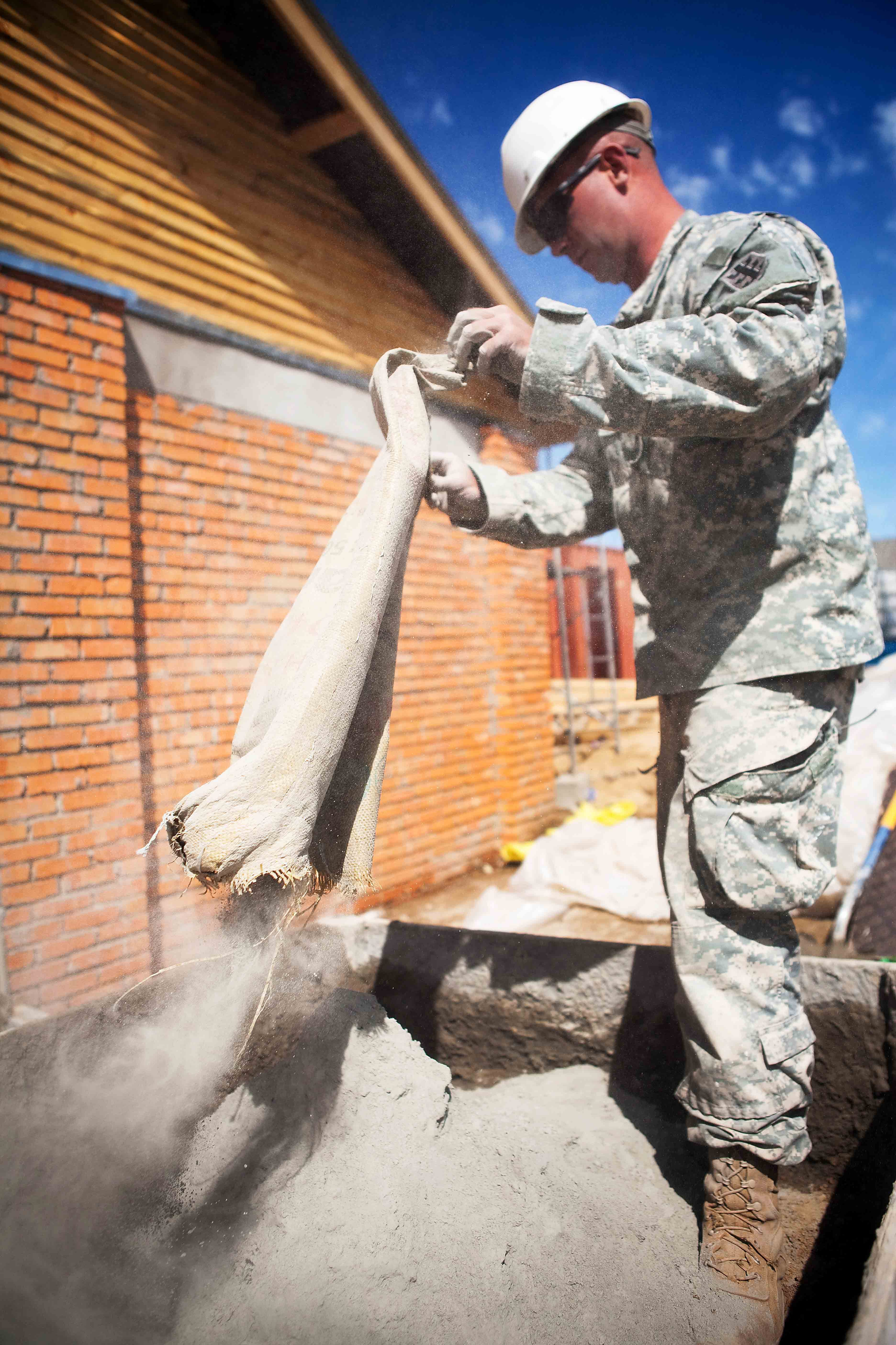 A soldier with 84th Battalion, 30th Brigade, 643rd Company from Schofield Barracks, Hawaii, empties a bag of cement that will be mixed into brick mortar during the Engineering Civic Action Program portion of Exercise Khaan Quest 2011 in Ulaanbaatar, Mongolia, Aug. 1. The purpose of the program is to improve medical care in the area by adding on to the Ayut Family Hospital, a 17,000 sq. ft. urgent care clinic, which will serve the 9th sub-district of khaan-Uul District. Khaan Quest is a training exercise designed to strengthen the capabilities of U.S., Mongolian and other participating nations’ forces in international peace support operations and civic outreach programs worldwide.